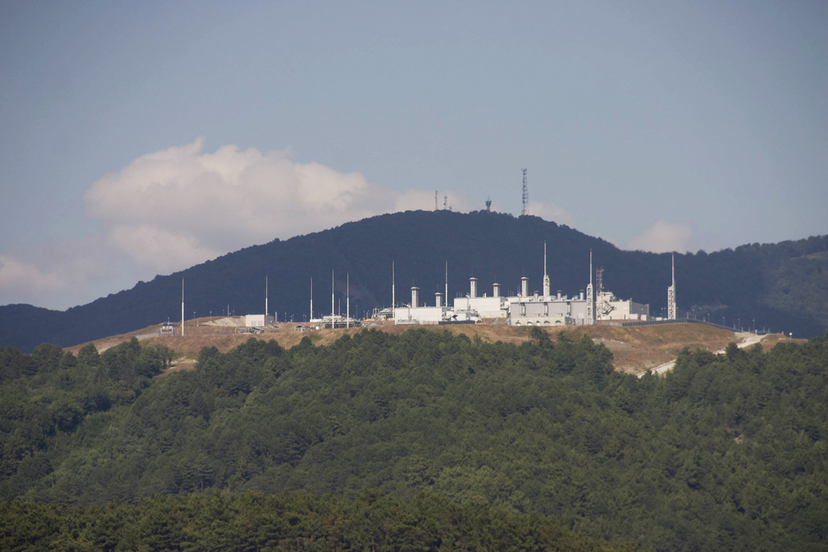 Beregovaya gas compression station